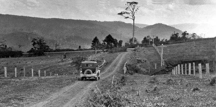 Looking from Witta Road towards Conondale. (Motor vehicle on road)